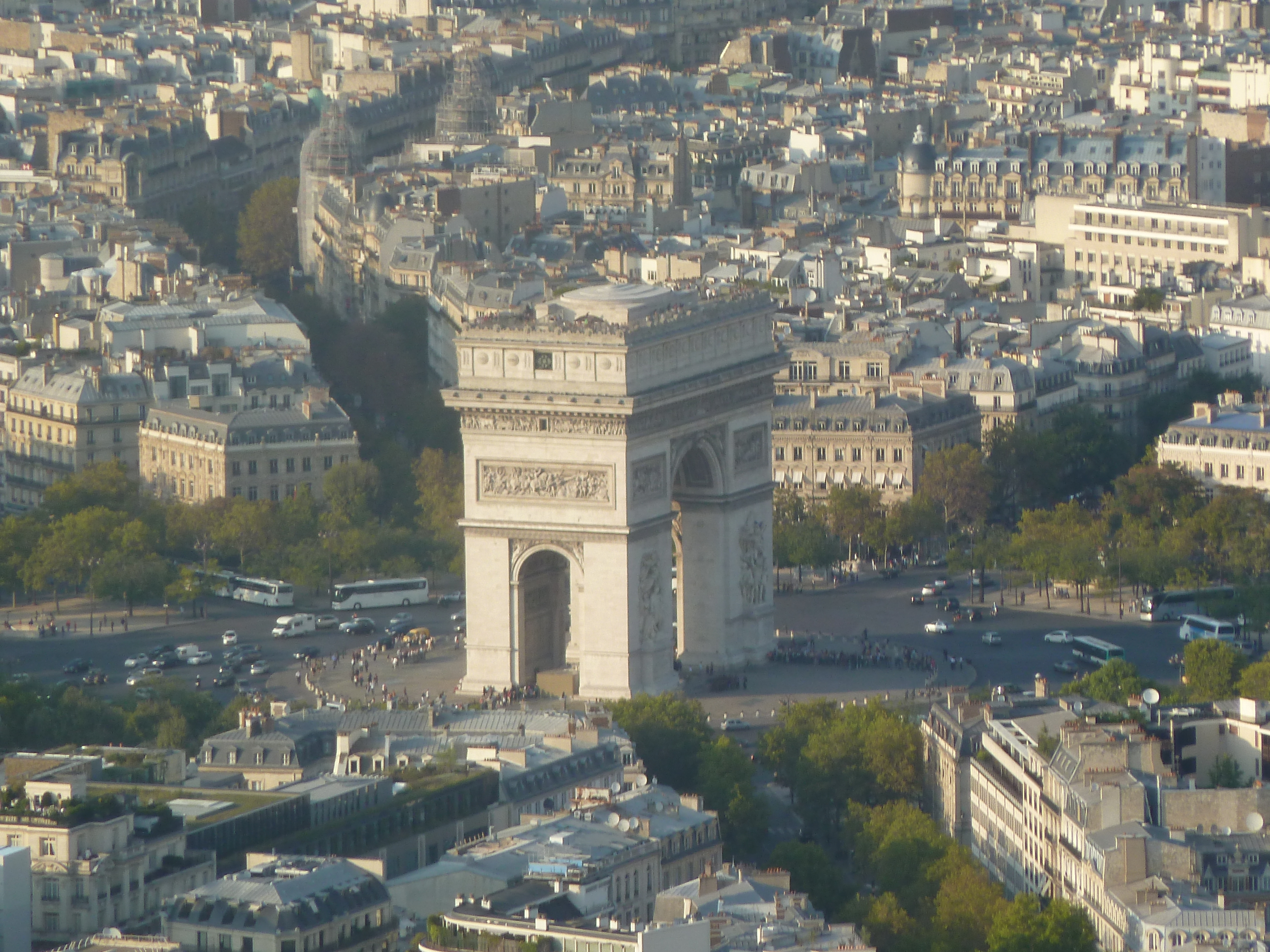 Arc de Triomphe as seen from the Eiffel Tower.